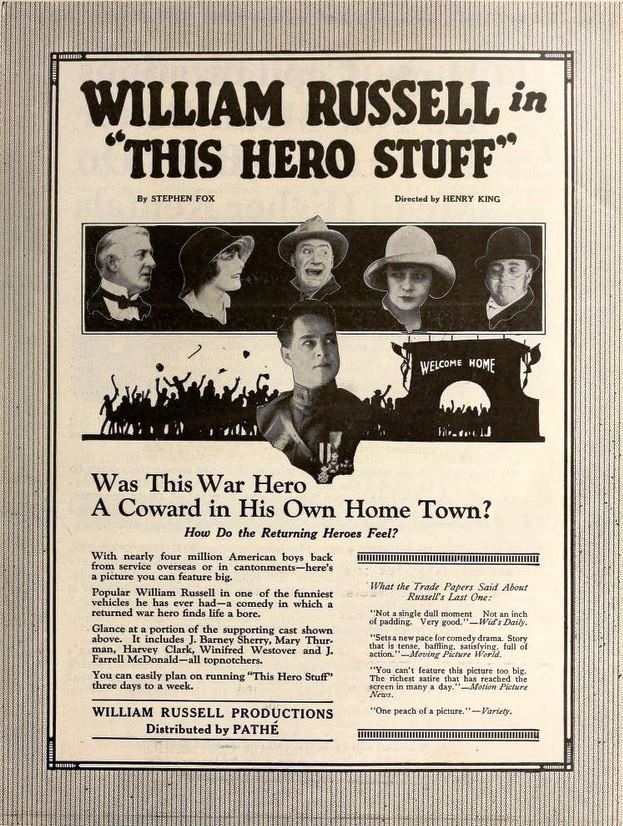 Advertisement for the American western comedy film This Hero Stuff (1919) with William Russell, J. Barney Sherry, Mary Thurman, Harvey Clark, Winifred Westover, and J. Farrell MacDonald, on page 1337 of the August 16, 1919 Motion Picture News.